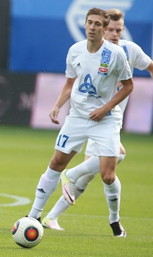 Aleksandr Vasilyev with FC Neftekhimik Nizhnekamsk in a game against FC Dynamo Moscow.